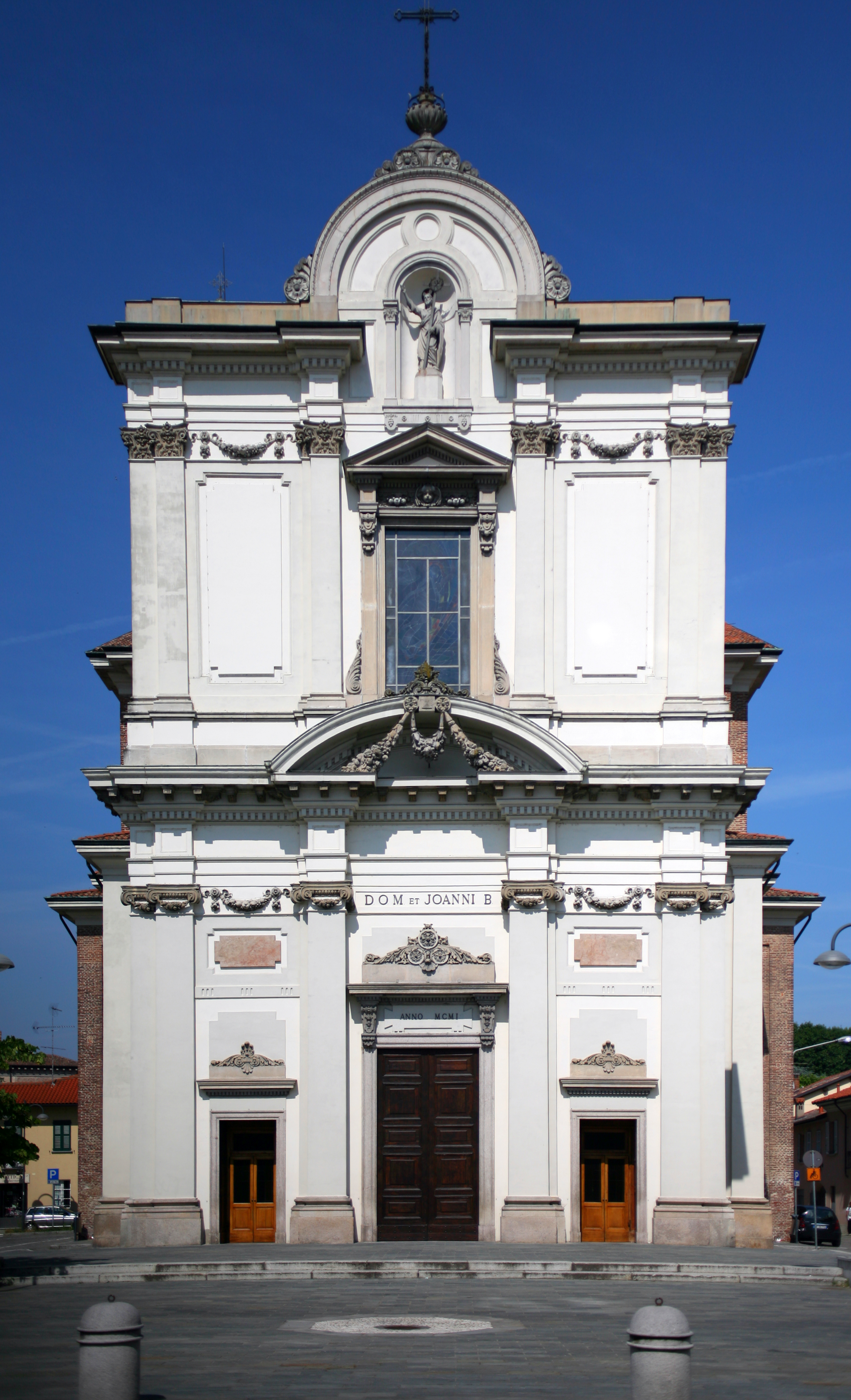 Robecco sul Naviglio, San Giovanni Battista parish church